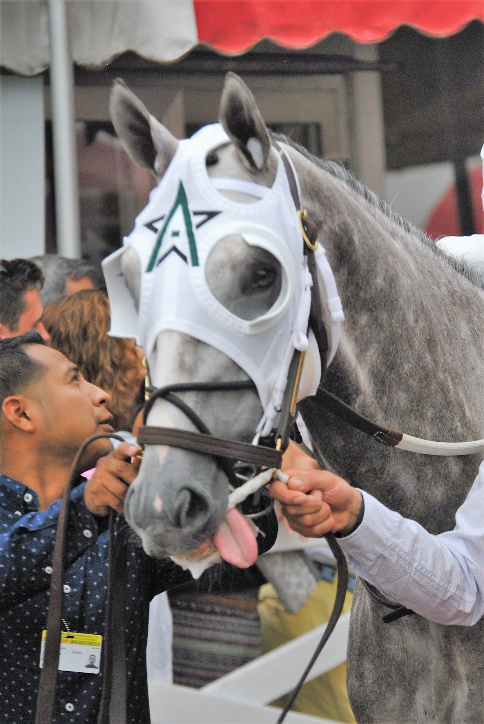 Creator, wearing blinkers with the WinStar logo, heading to the track for the 2016 Jim Dandy Stakes at Saratoga